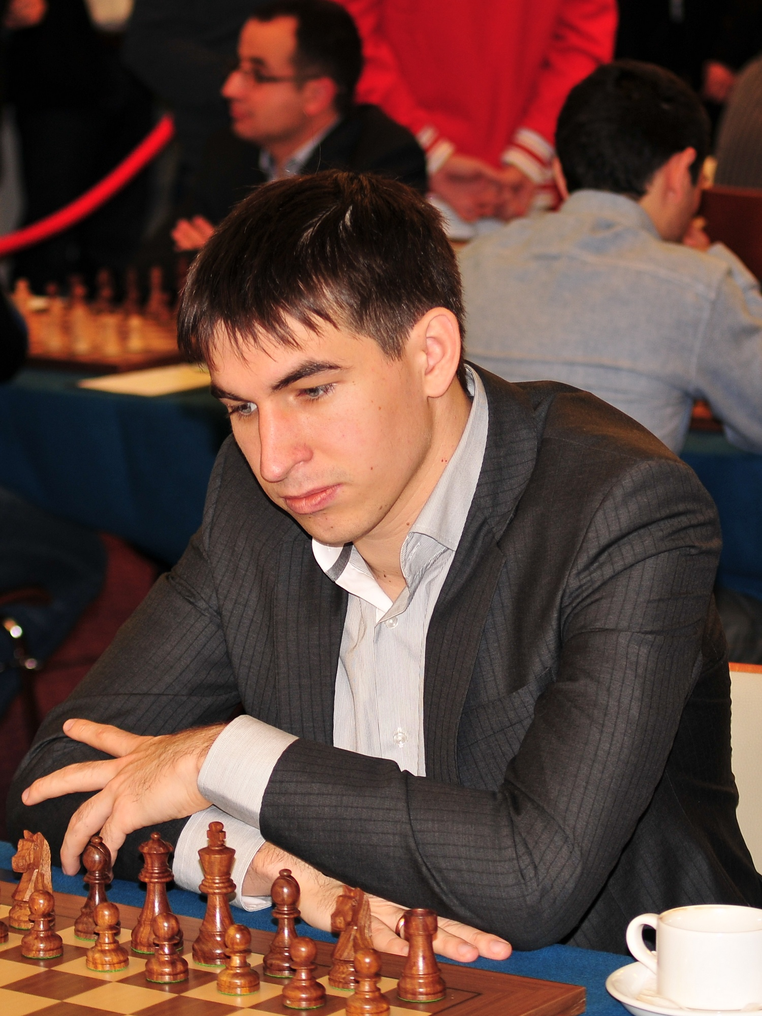 GM Dmitry Andreikin, European Chess Team Championship Warsaw 2013